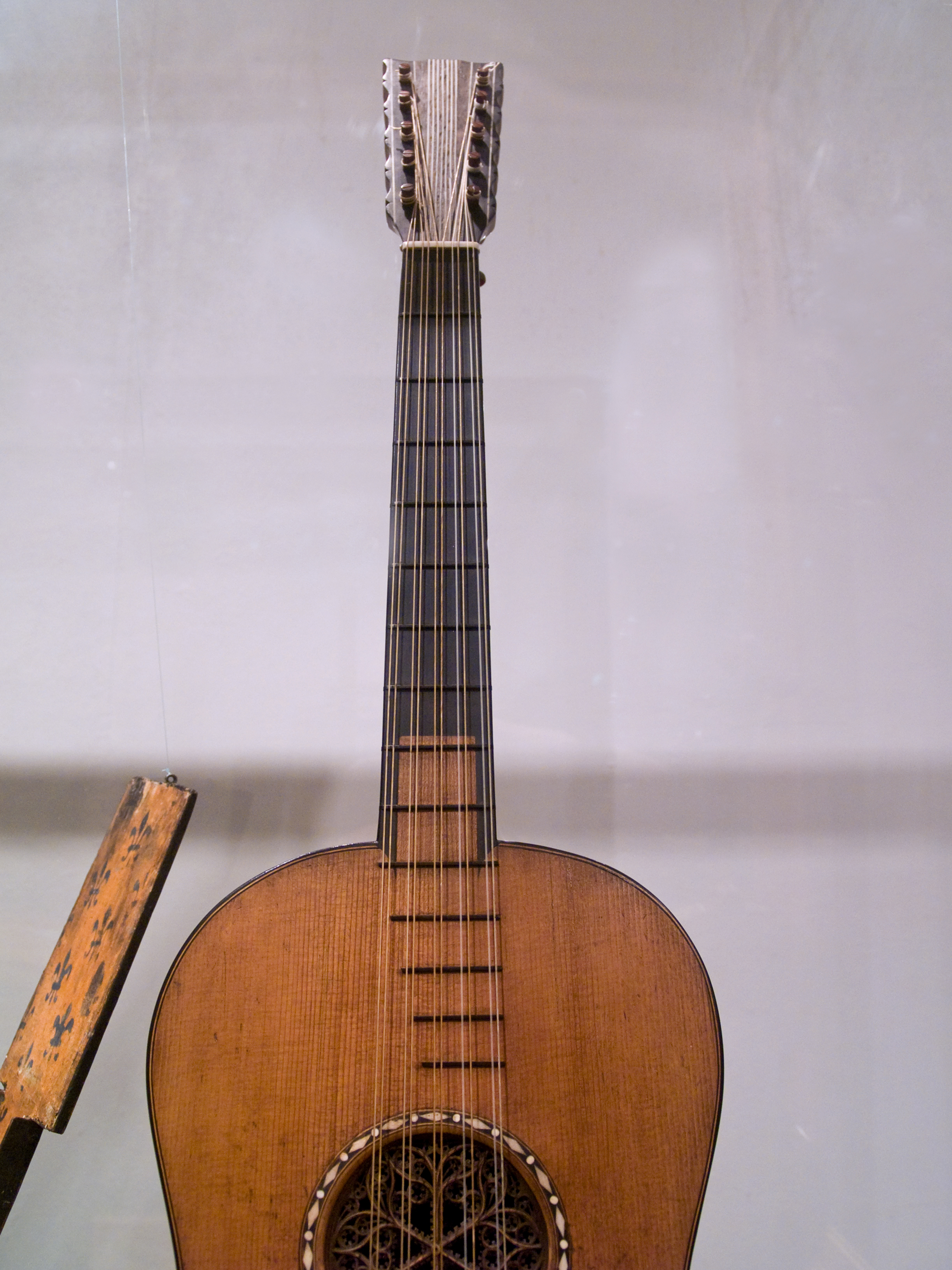 National Music Museum in Vermillion, SD where we visited last fall has a Stadivarius collection. There is a guitar, violin, cello (converted), and a mandolin with original case. These are all restored to playable condition.